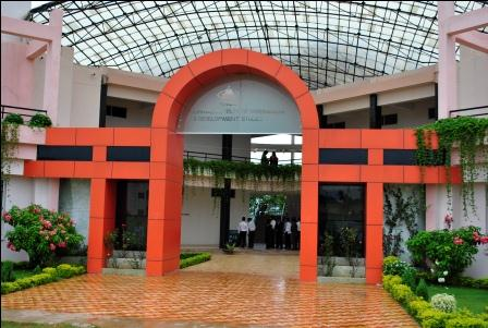 Kejriwal Institute of Management and Development Studies, Namkum, Ranchi, Jharkhand, India